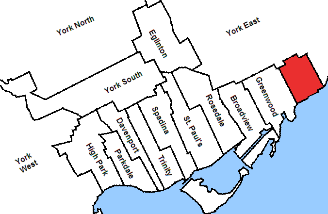 map of Danforth (electoral district) in 1993